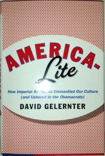 low-res photo of the cover of america lite